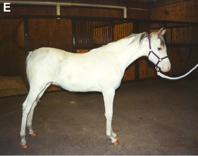 (E) Dominant white Arabian stallion.